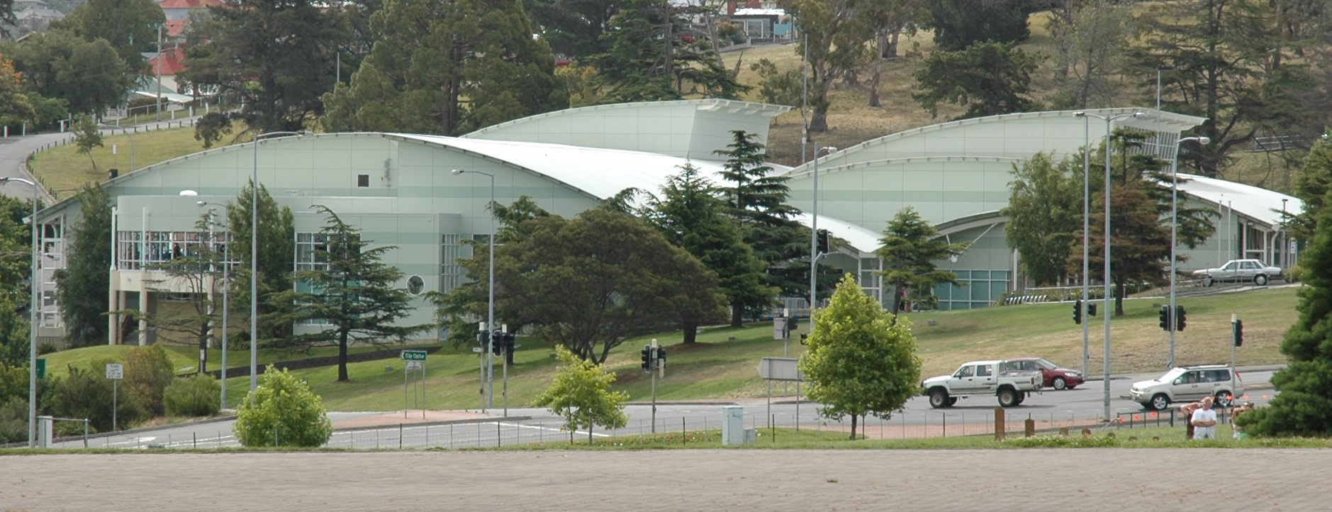 Taken December 2007